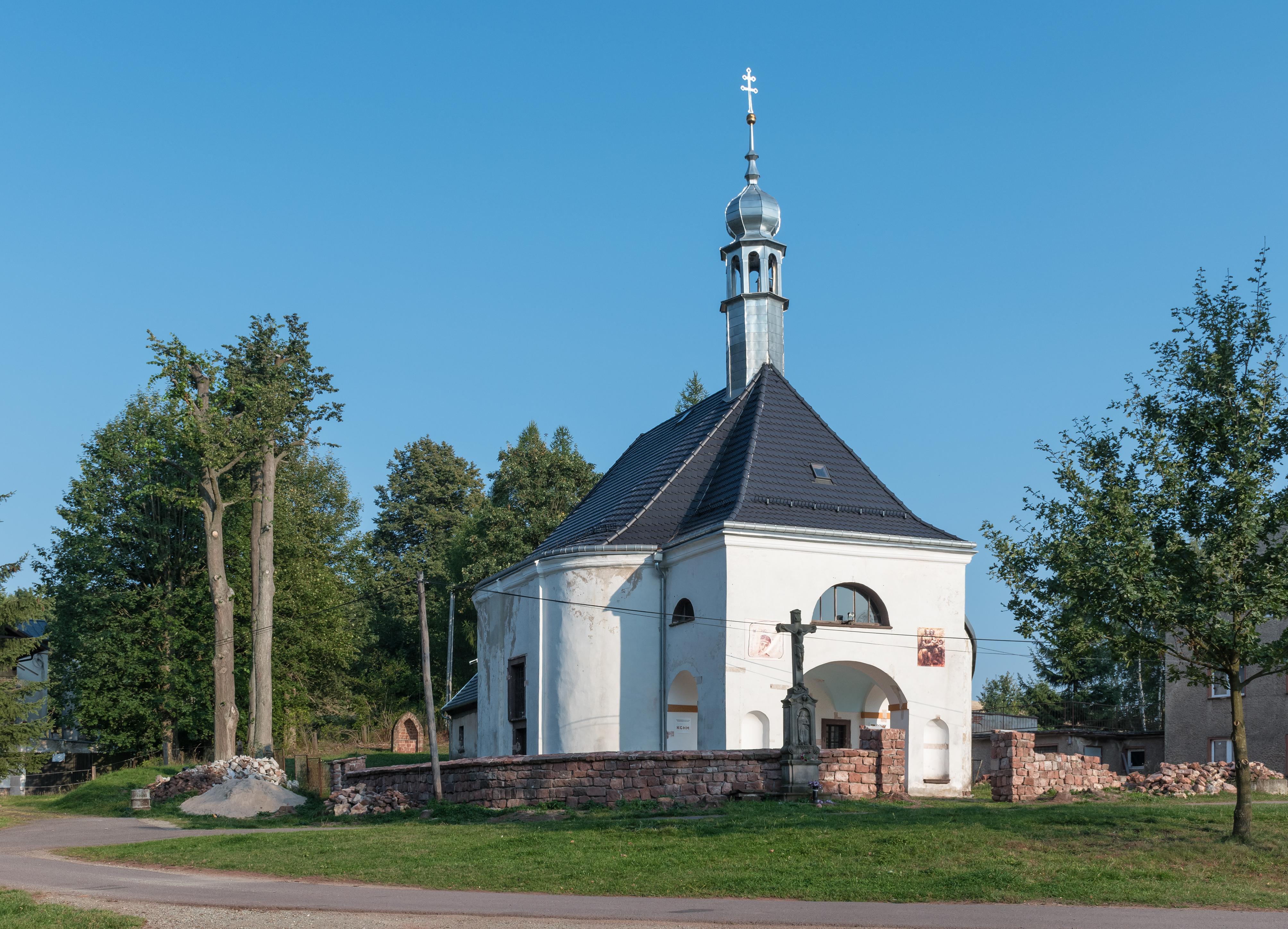 Saint Anne church in Nowa Ruda Ta fotografia przedstawia zabytek wpisany do rejestru zabytków pod numerem ID 592996